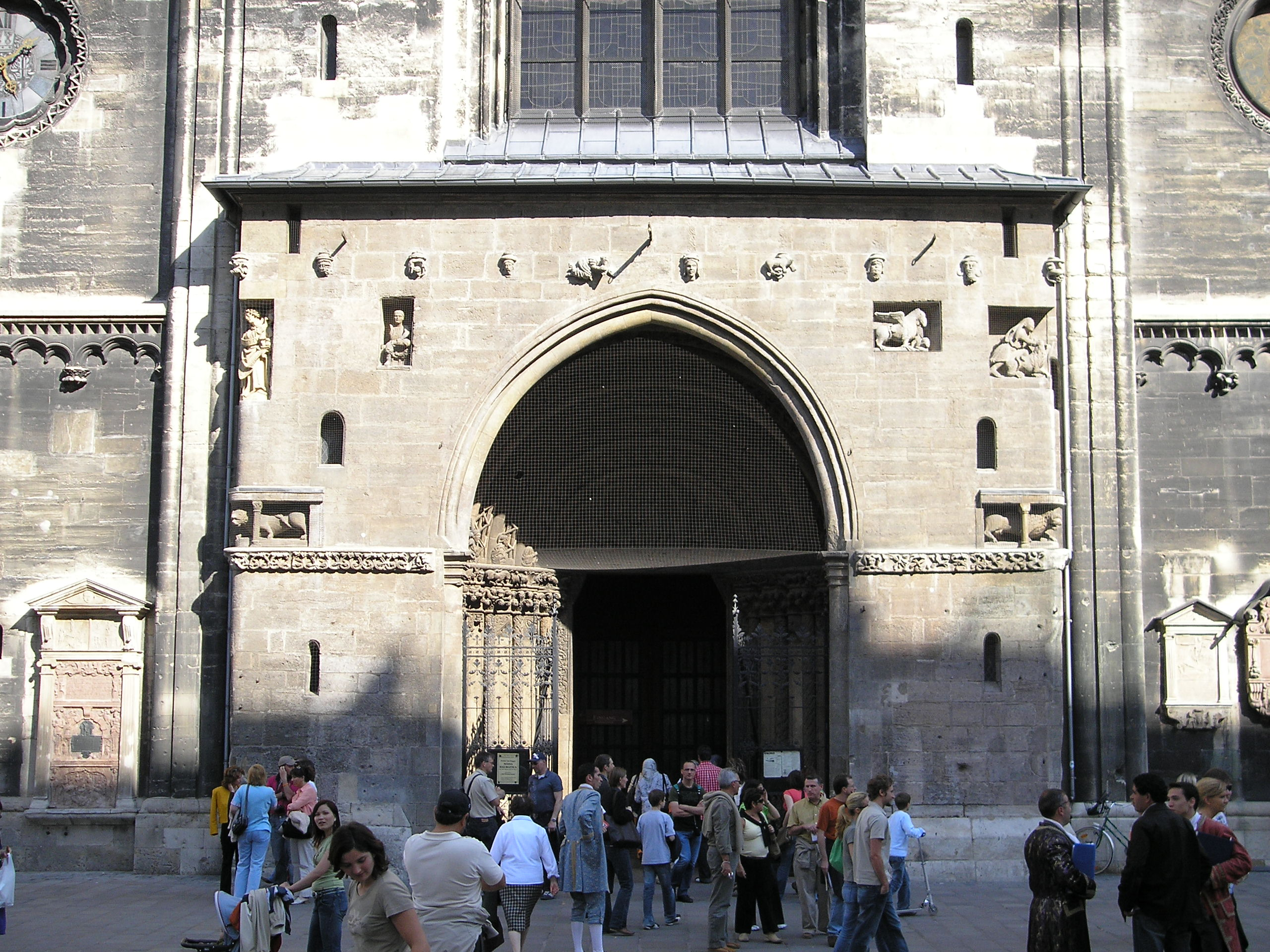 Giant's door of the Stephansdom (St. Stephen's Cathedral) in Vienna.